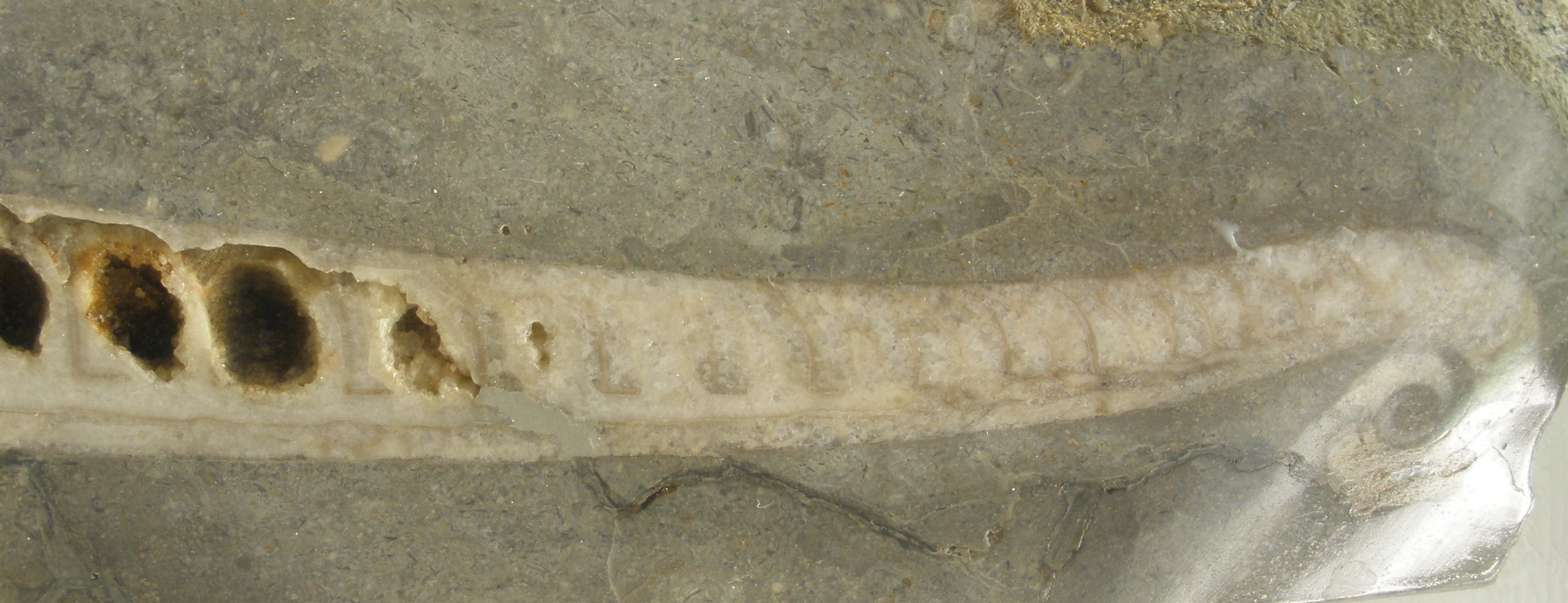 Fossil of Lituites lituus, Museo di Storia Naturale di Verona